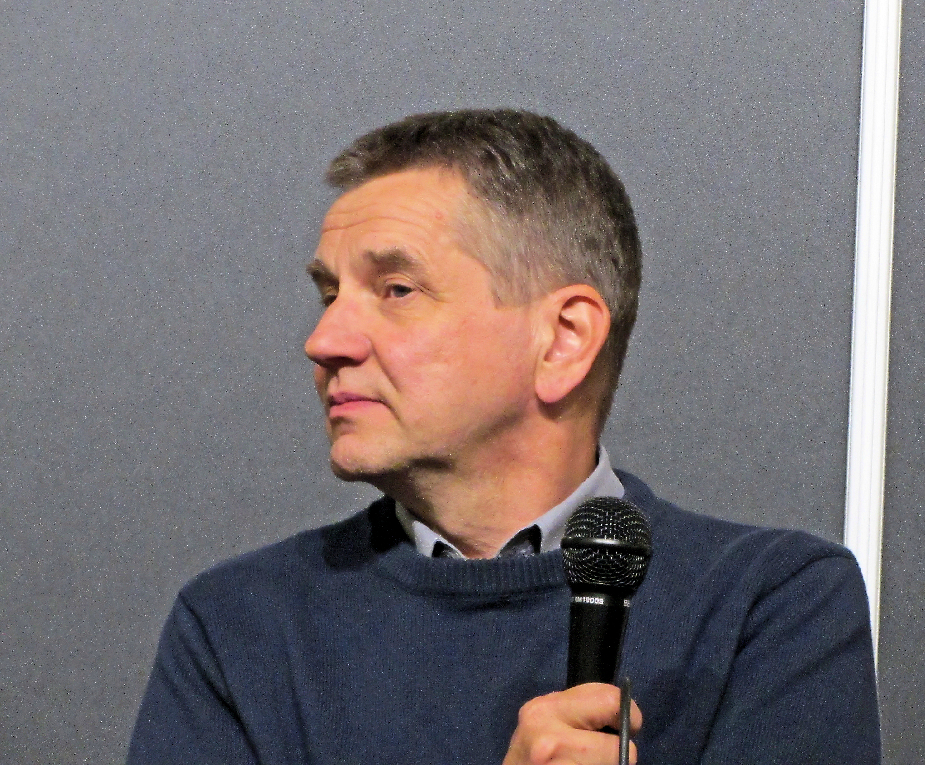 Finnish writer Olli Jalonen at Helsinki Book Fair 2012